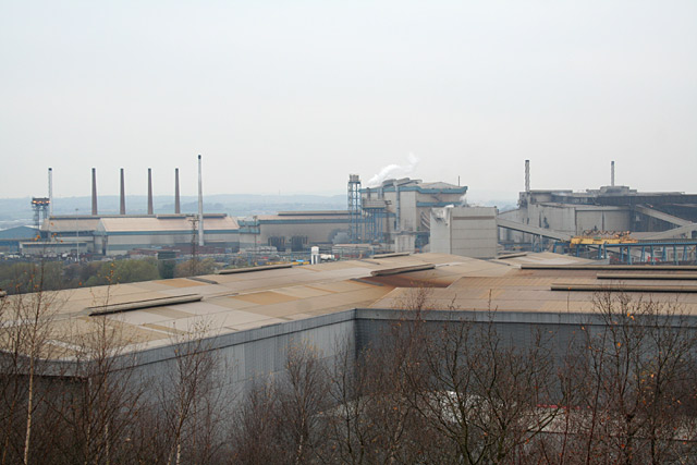 Corus Steelworks, Rotherham This view shows a number of the main buildings of the complex. In the distance, to the right the electric arc furnace building. The next stage occurs in the central building in the distance. This is the continuous casting plant where the molten steel is cast into blooms - large slabs which will then pass to the rolling mills. The four tall brick chimneys to the left are the bloom re-heating plant; here the blooms are brought up to the right temperature before passing to the rolling mills, one of which can be seen in the foreground.